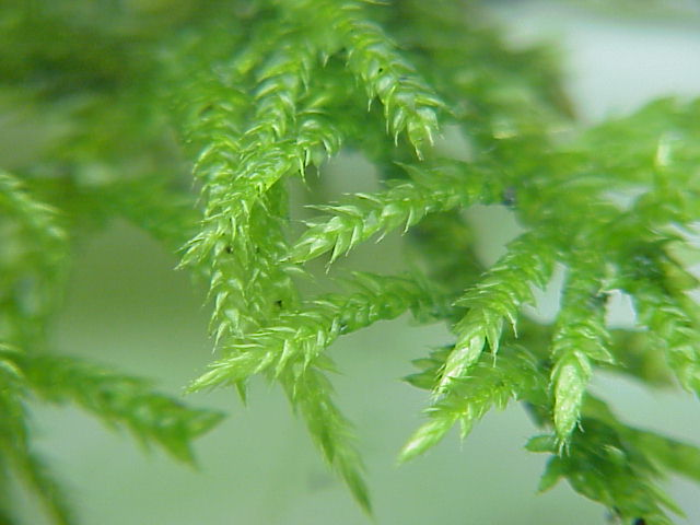 Species: Cirrphyllum piliferum Family: ' Image No. 1